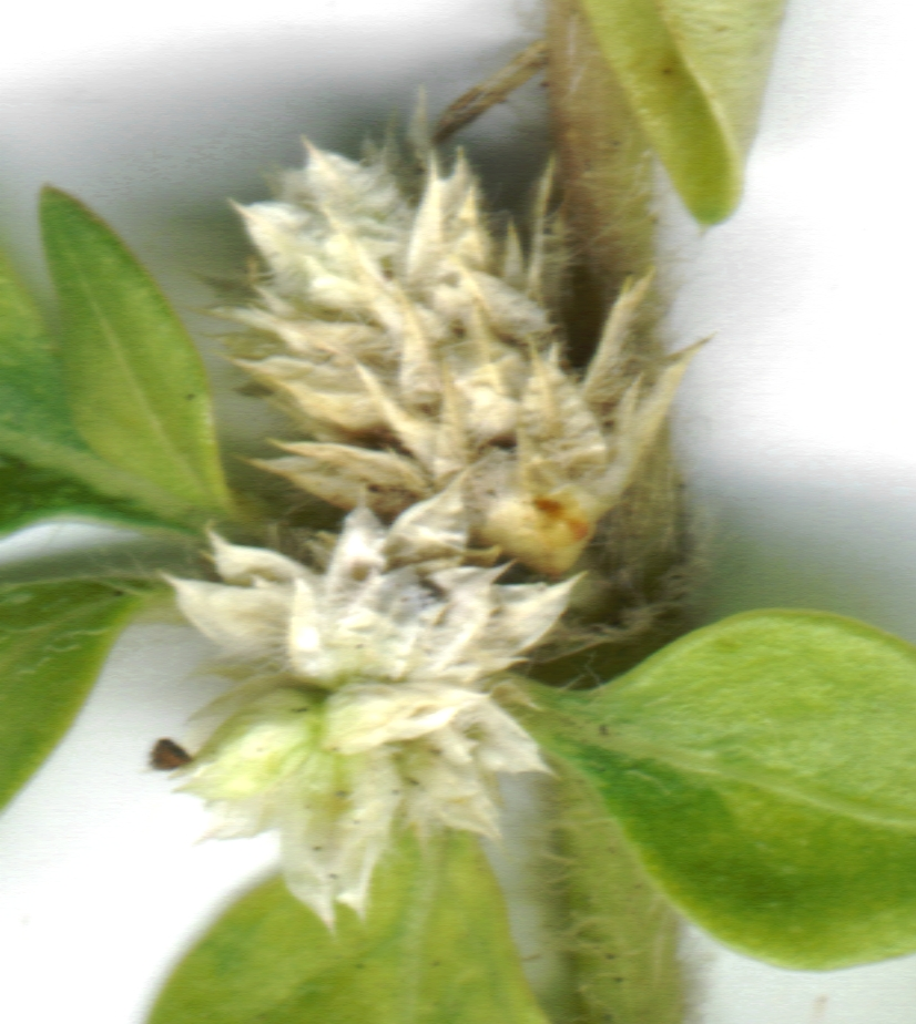 Alternanthera caracasana (close up seedhead). Location: Maui, Makawao